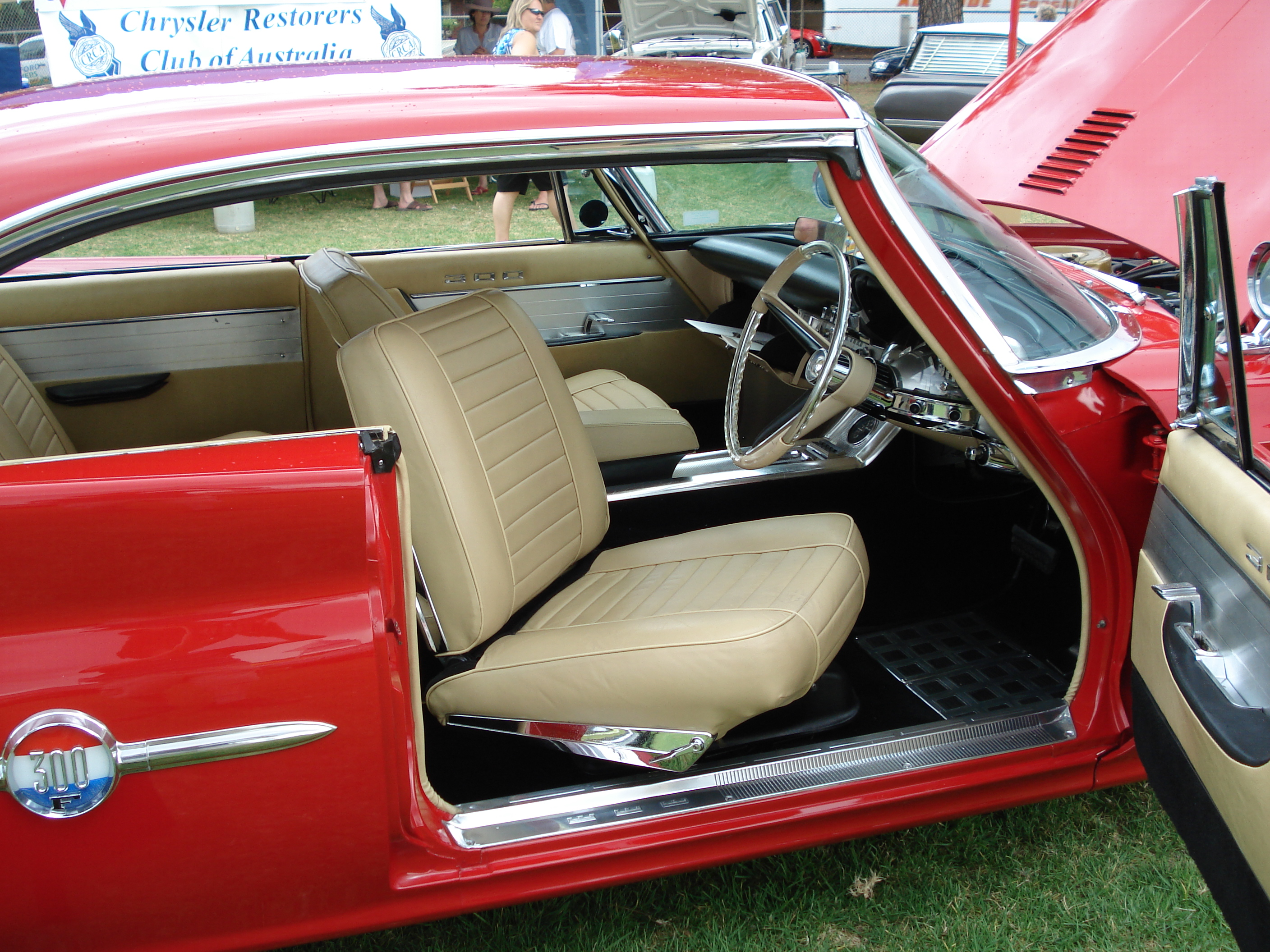 The Chrysler 300F of 1960 featured swivelling front seats.